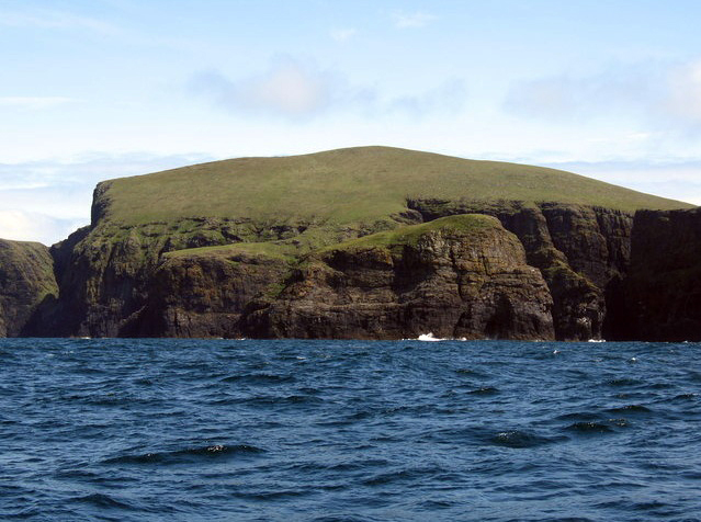 Western cliffs, Mingulay, near to Dùn Mhiùghlaigh.